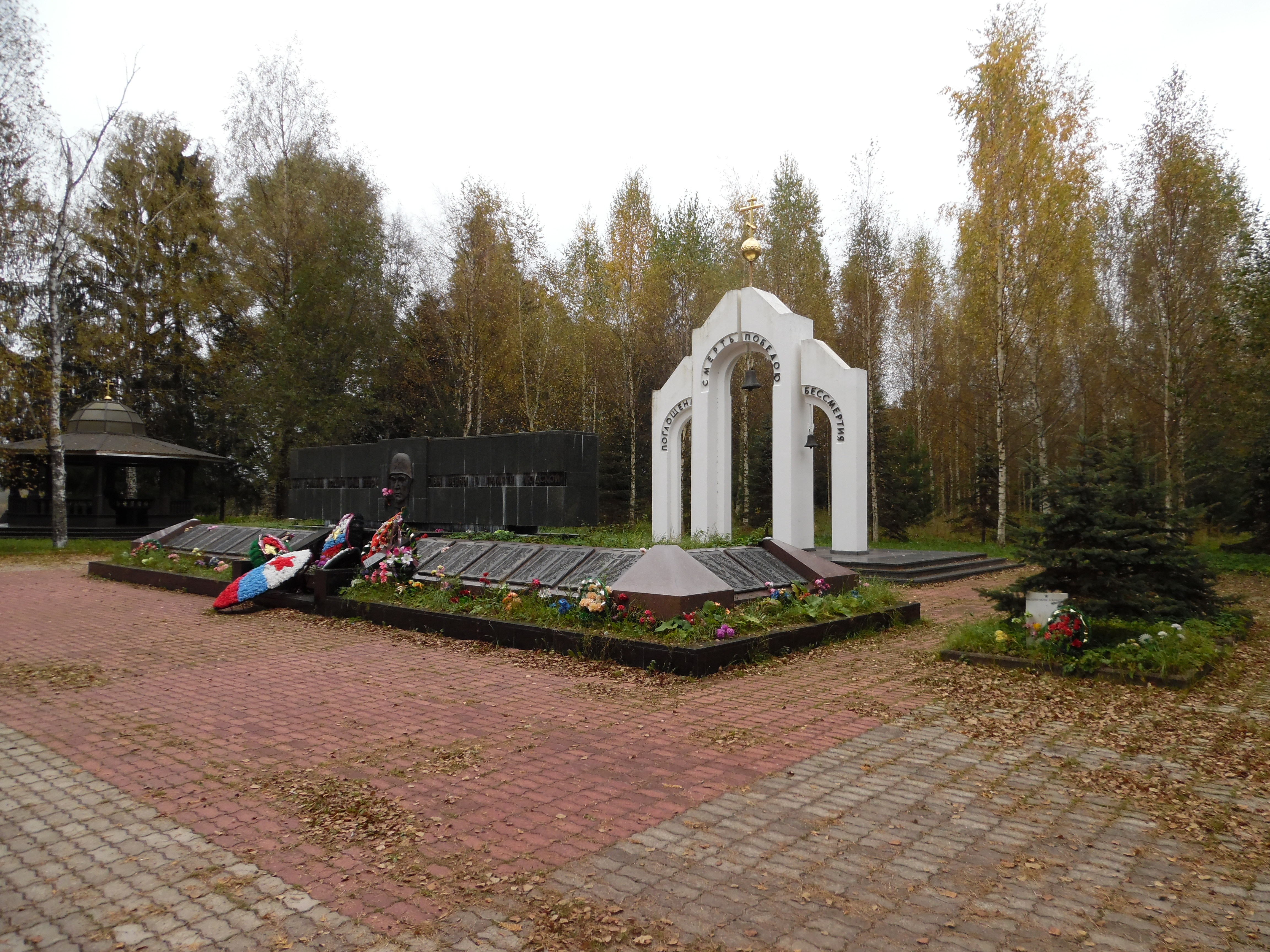 Novoselitsy Novgorod district Novgorod region The monument - tomb of soldiers WWII